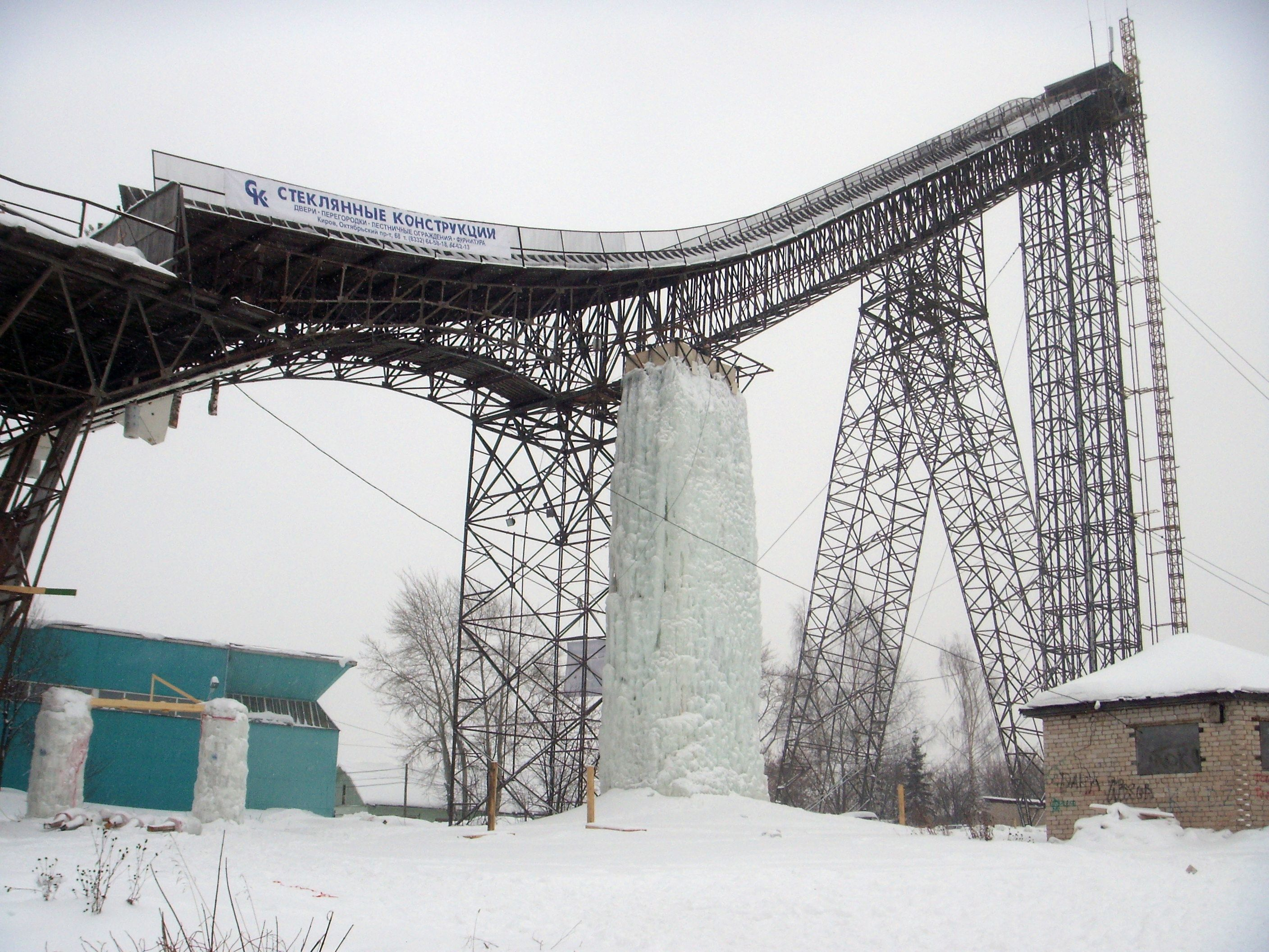 Icicle for Mountaineer in «Kirov tramplin»